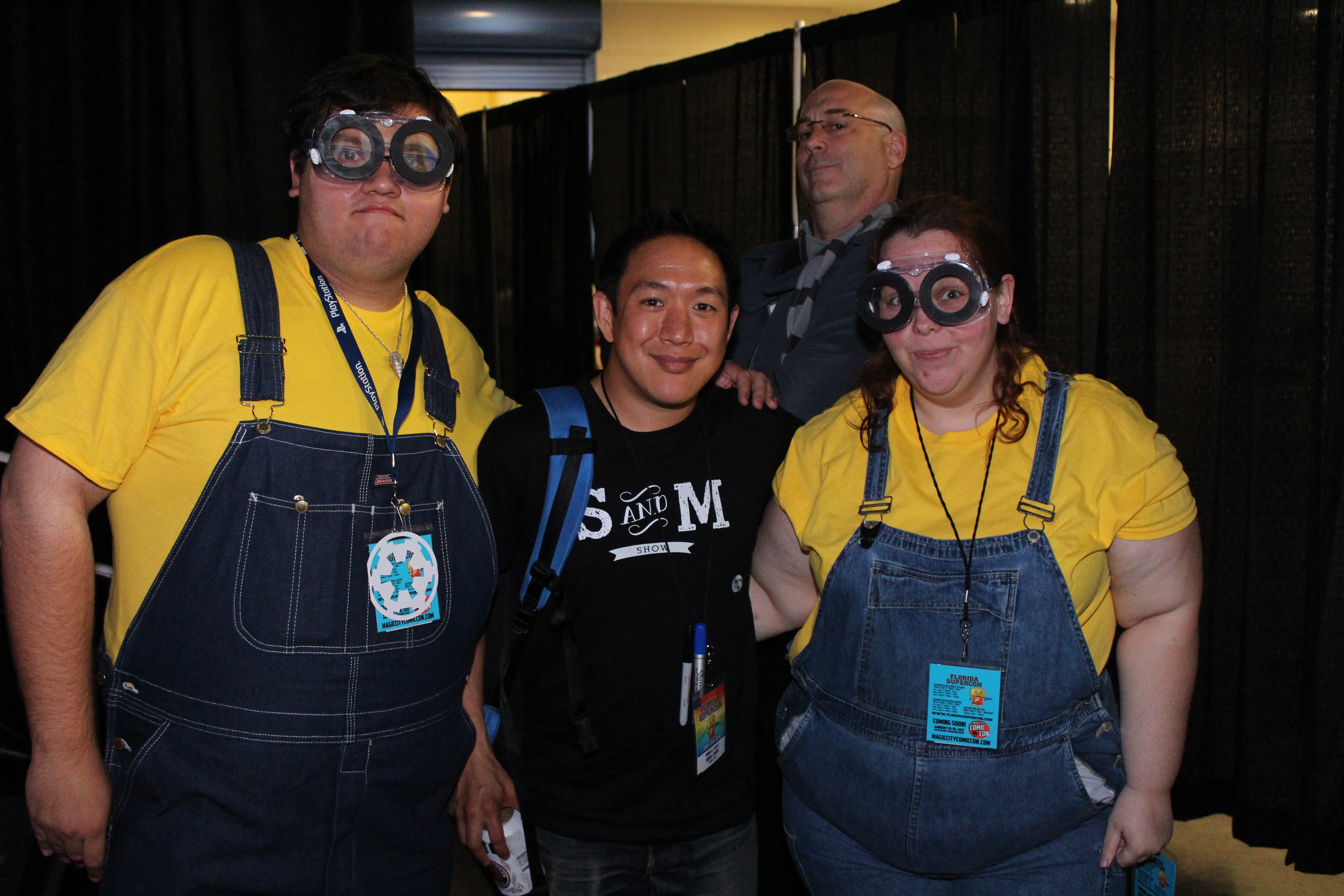 Ming Chen at the Florida Supercon in 2014